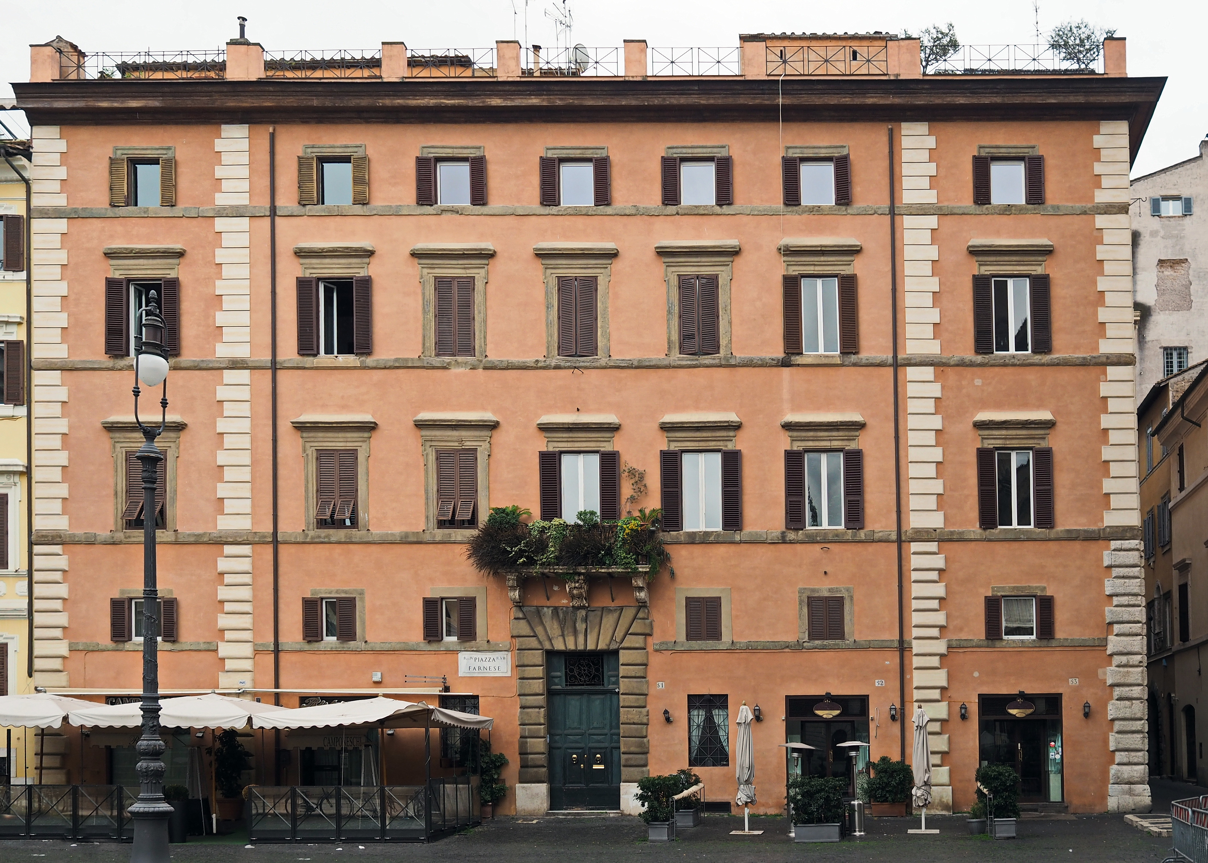 Piazza Farnese (Rome); Palazzo Mandori Mignanelli